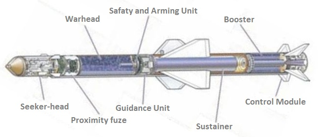 Mar-1 missile parts/modules.